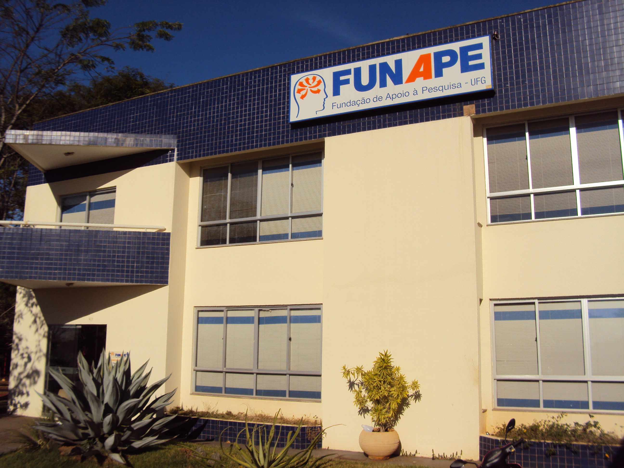 Fachada da Fundação de Apoio a Pesquisa da UFG